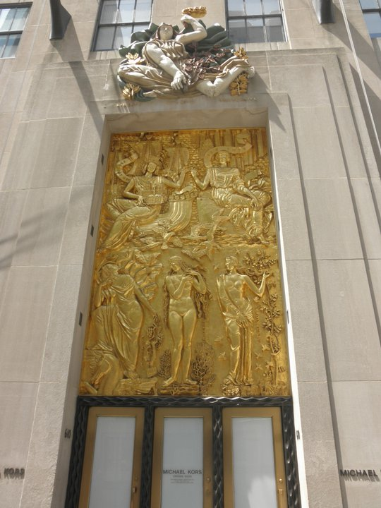 Rockefeller Center